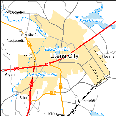 Map of the Utena City